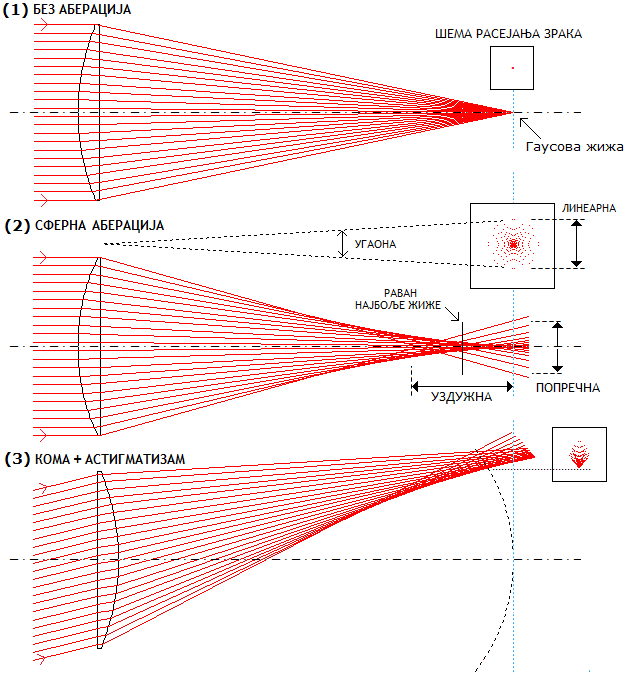 АБЕРАЦИЈА ЗРАКА